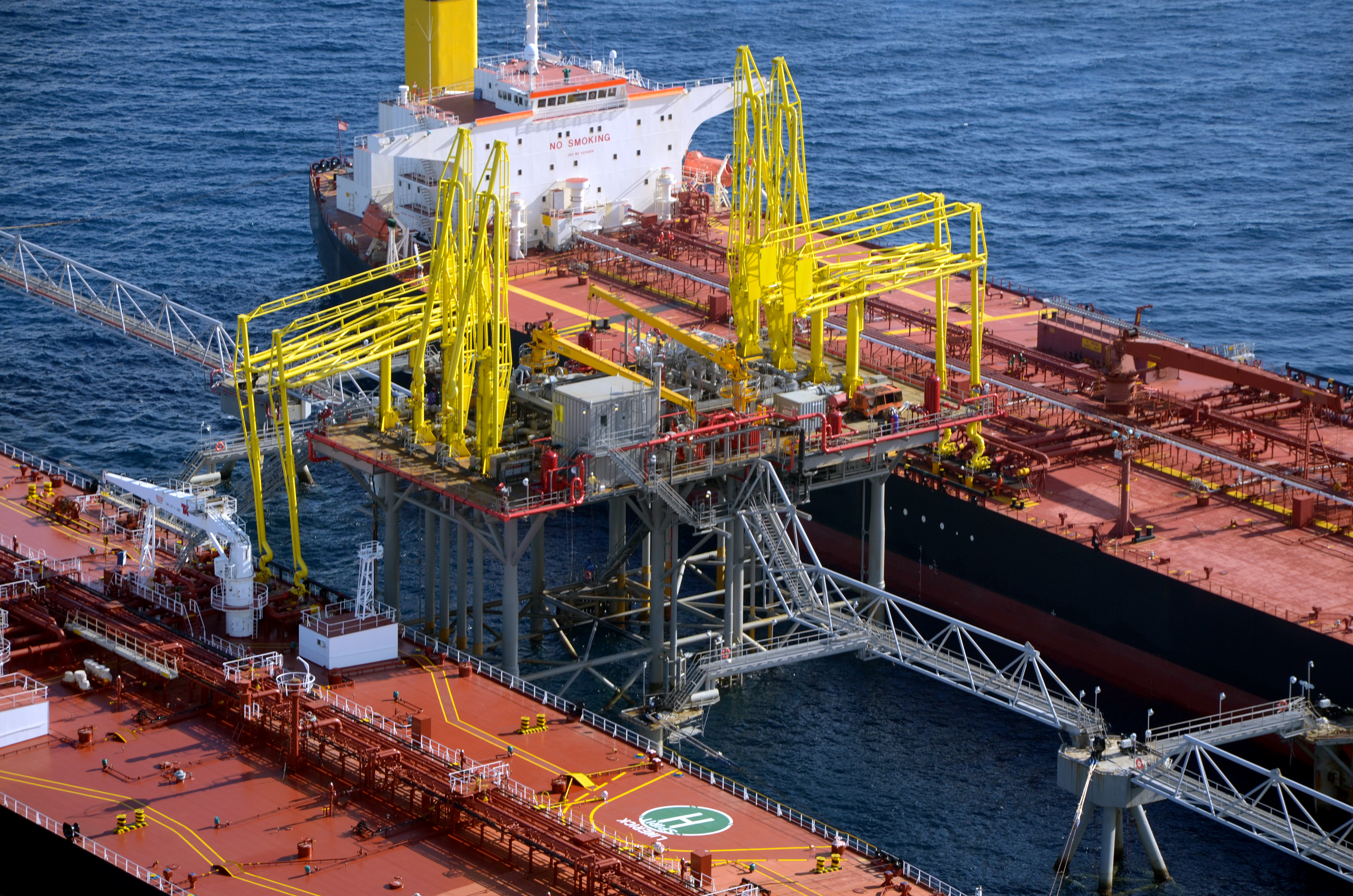 Four of eight marine loading arms connected to two oil tankers by Dutch company KANON Loading Equipment